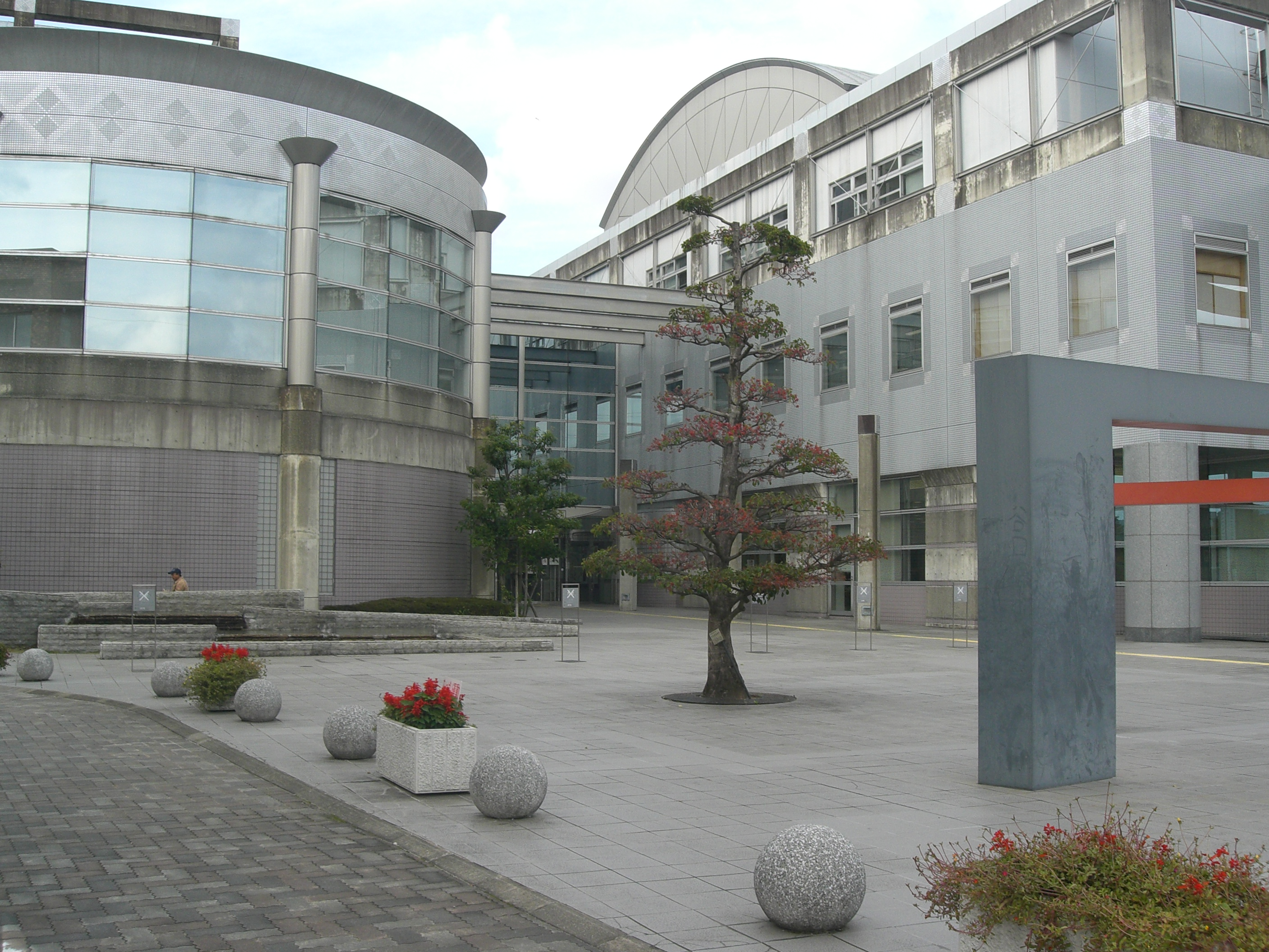 Onojo Madokapia (大野城まどかぴあ) is a municipal owned utilities in Onojo, Fukuoka, Japan. There is a library on the first floor.